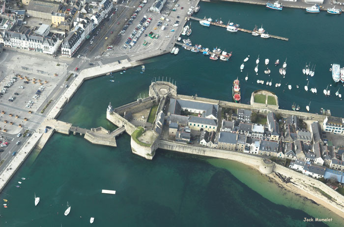 Airial photo of the Ville Close, Concarneau, Finistère, Brittany, France